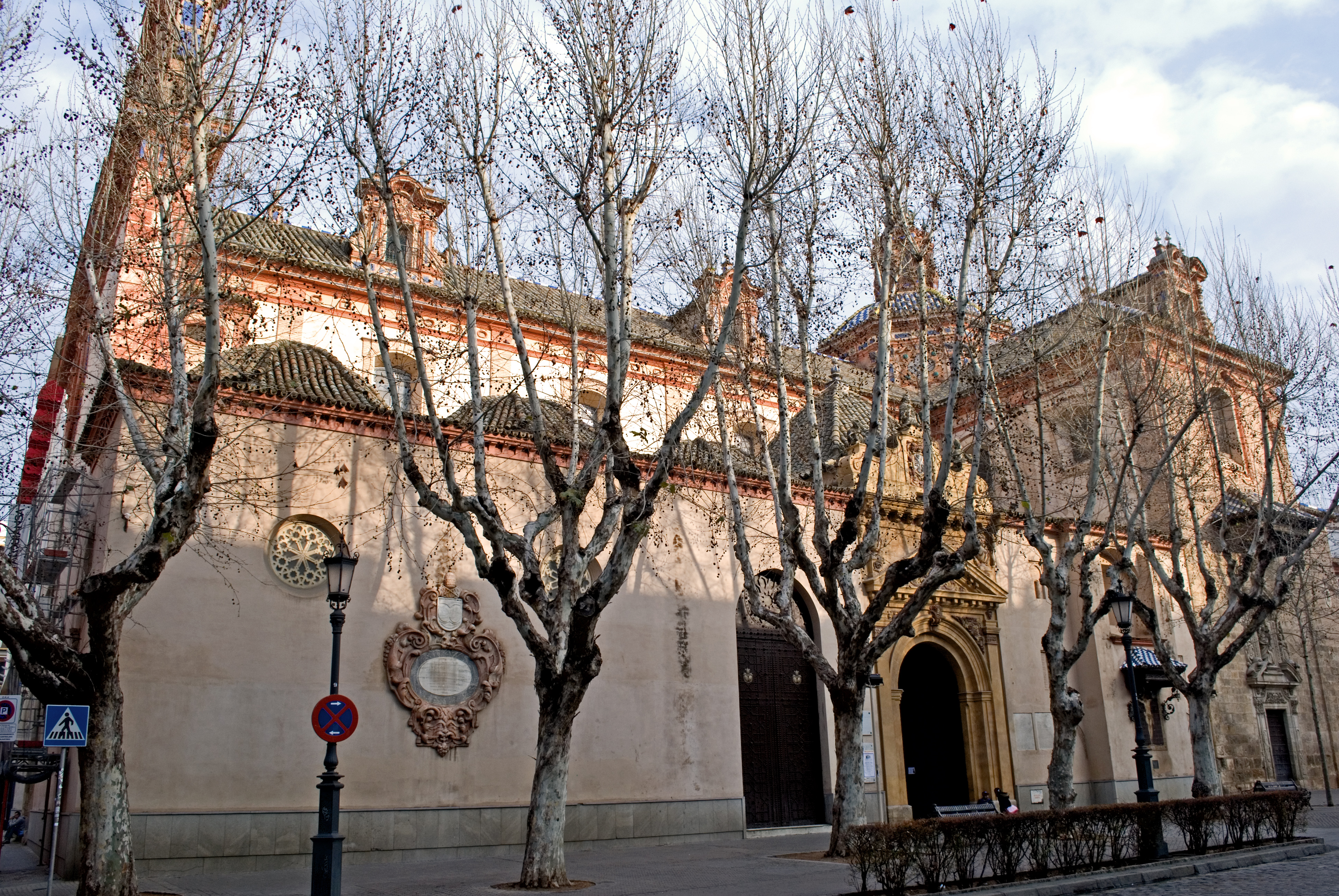 Church Santa María Magdalena (Sevilla) Spain